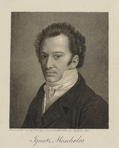 Engraving of Ignaz Moscheles